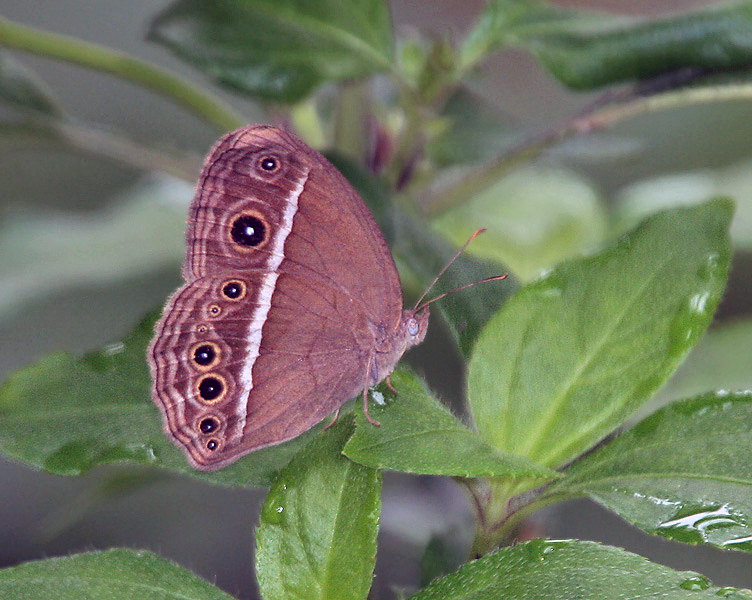 Dark-brand Bushbrown Mycalesis mineus in Kolkata, West Bengal, India.